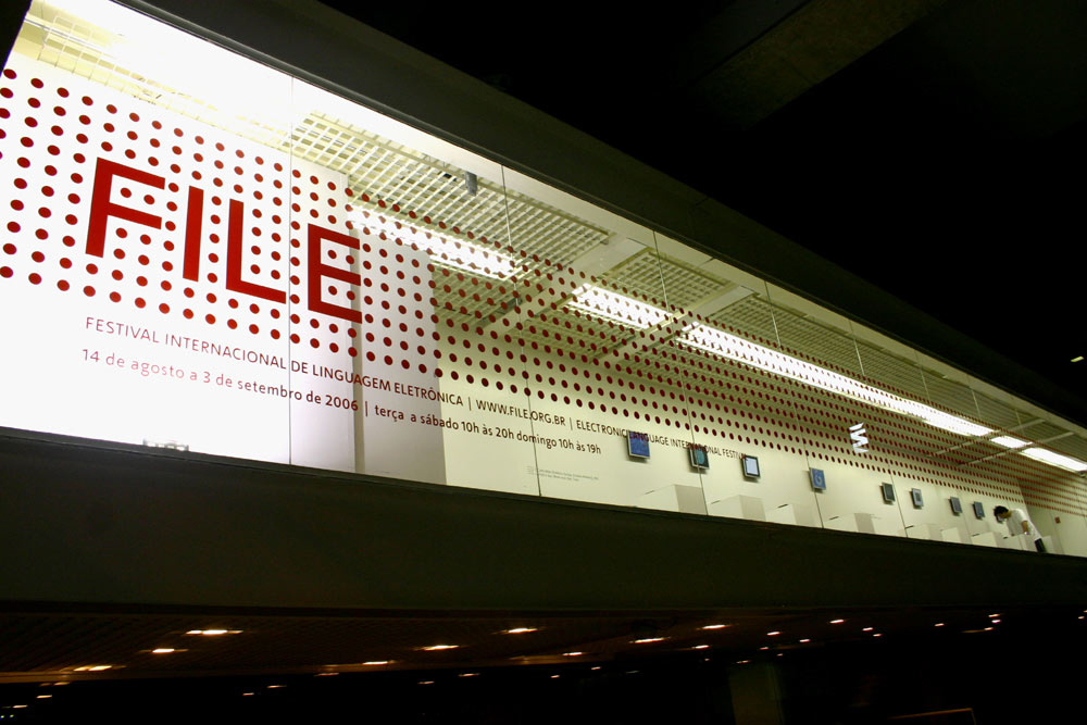 view of the FILE electronic language international festival